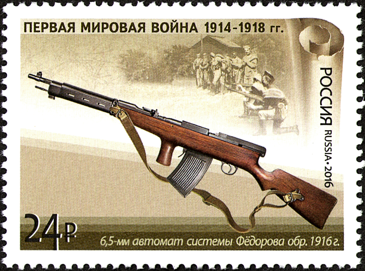 The History of World War I (the ongoing series, issue IV). The Russian weapon of World War I. The 6.5 mm Fedorov Avtomat model 1916. The stamp of Russia, 24.00 ₽, 28 July 2016, PTC Marka Catalogue No. 2115. Coated paper. Offset printing. Perforation: comb 12. Size of the stamp: 50×37 mm. Print run: 308,000.